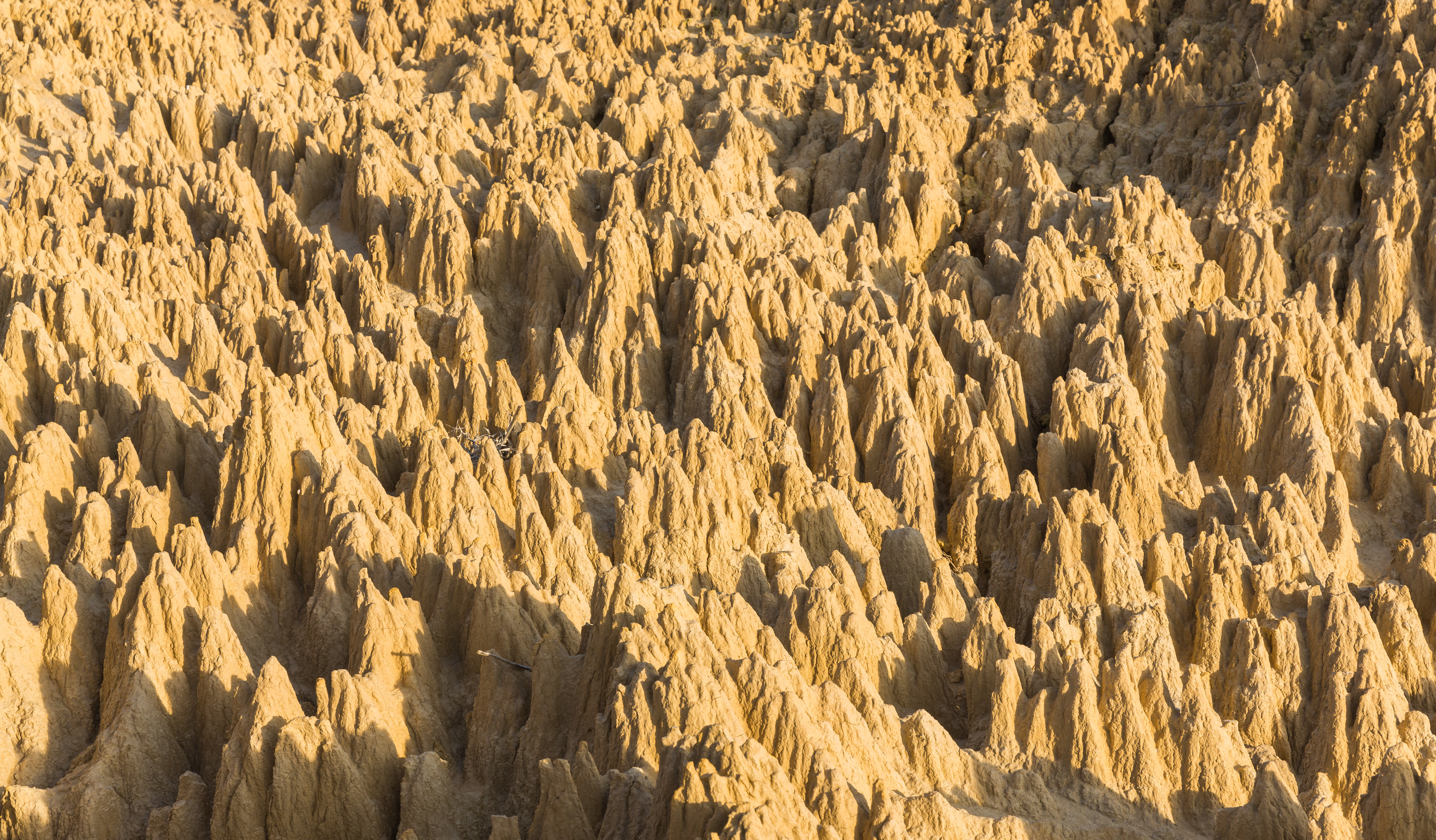 Detail view of Los Aguarales de Valpalmas, a rare, fragile and dynamic geological phenomena located near Valpalmas, Zaragoza, Spain. The landscape is the result of water flows over fragile material in a process known as piping.